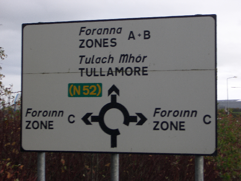 Picture of Irish Road sign taken by me with a digital camera